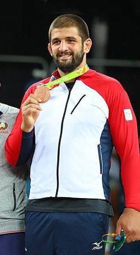 2016 Summer Olympics, Men's Freestyle Wrestling 125 kg Podium